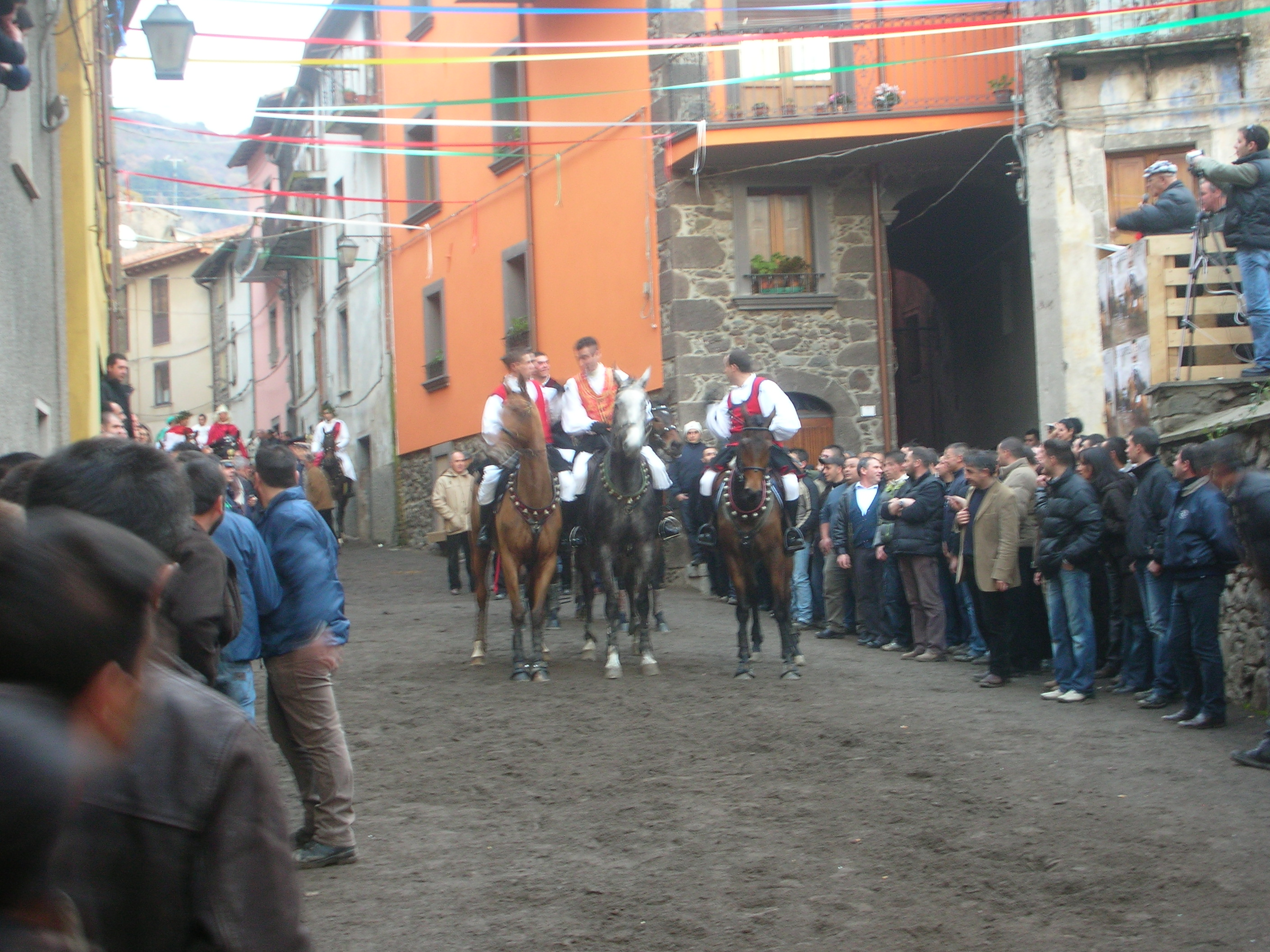 photo of "Sa Carrela 'e Nanti" , Santulussurgiu, Sardinia, Italy.